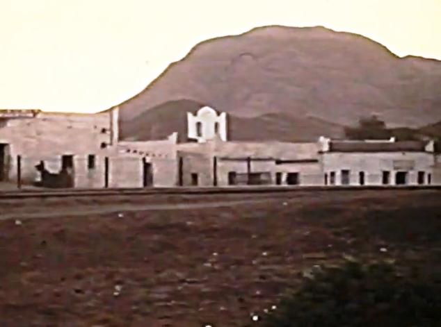 Ali SABIEH IN 1971